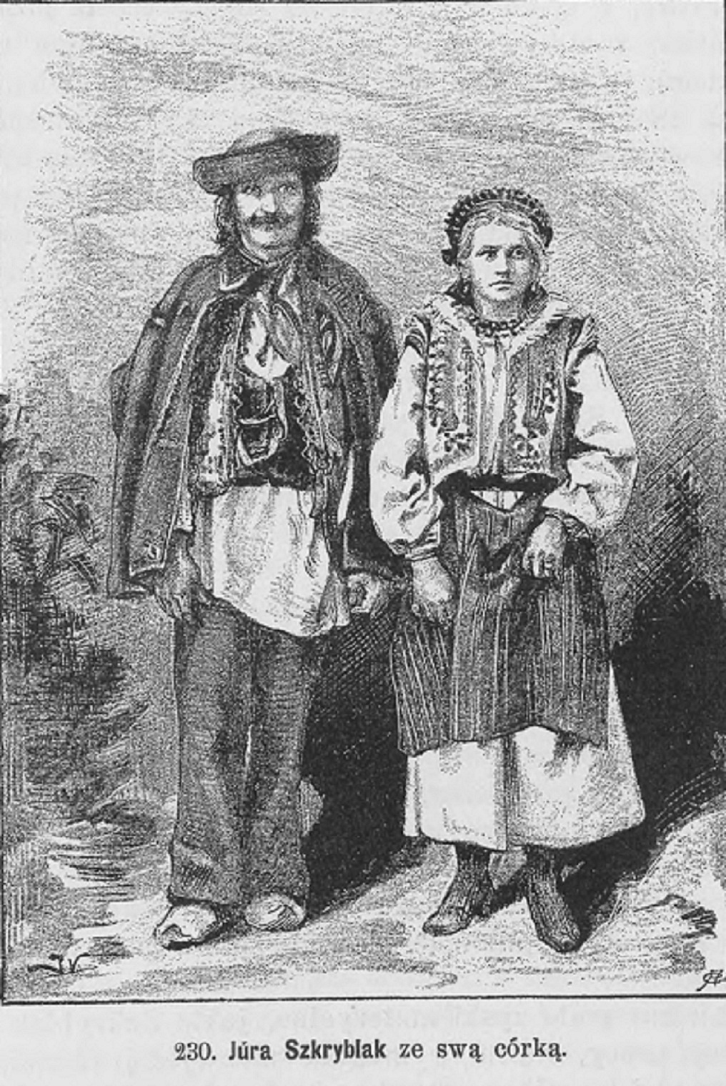 Hutsuls